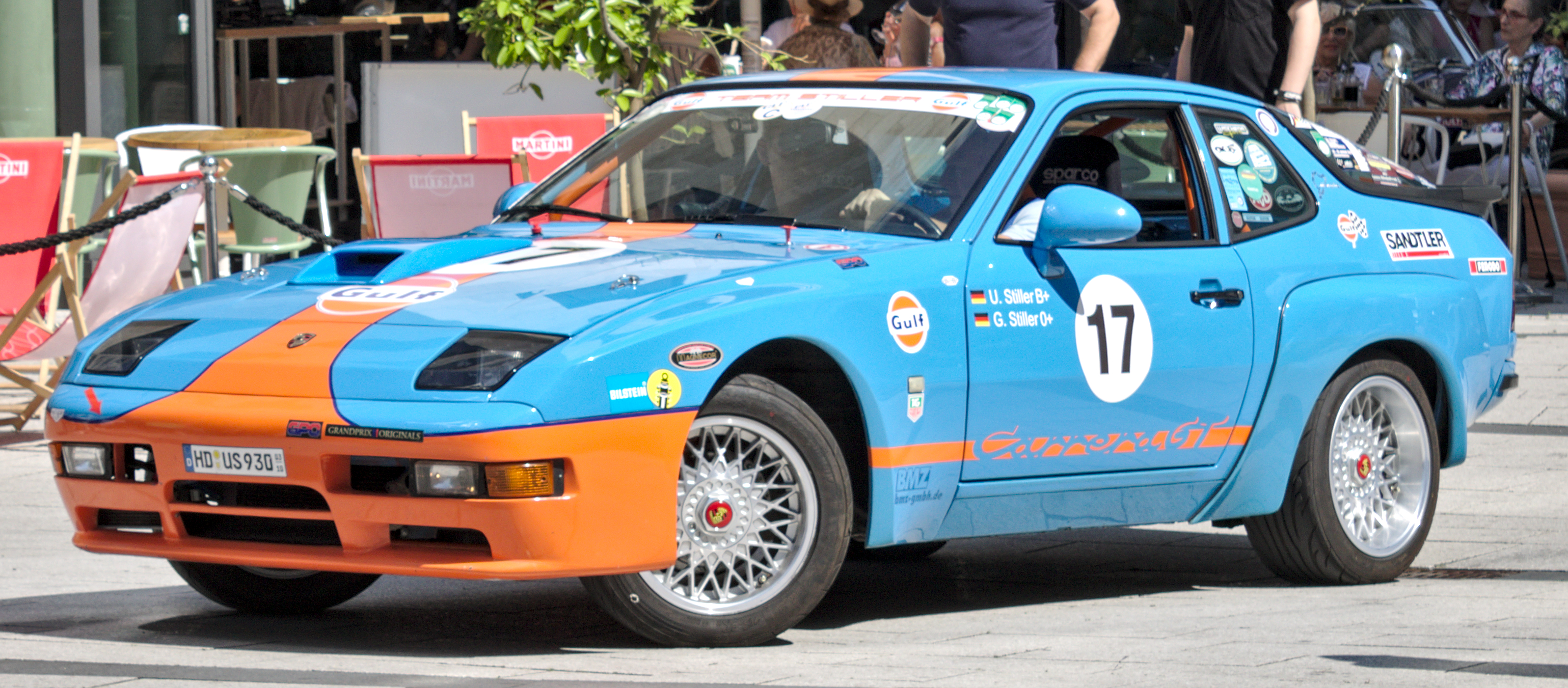 Porsche_924_Carrera_GTS in Stuttgart